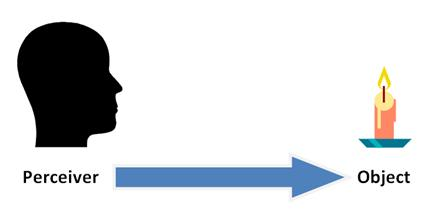 Illustration of Naive realism or Direct realism.